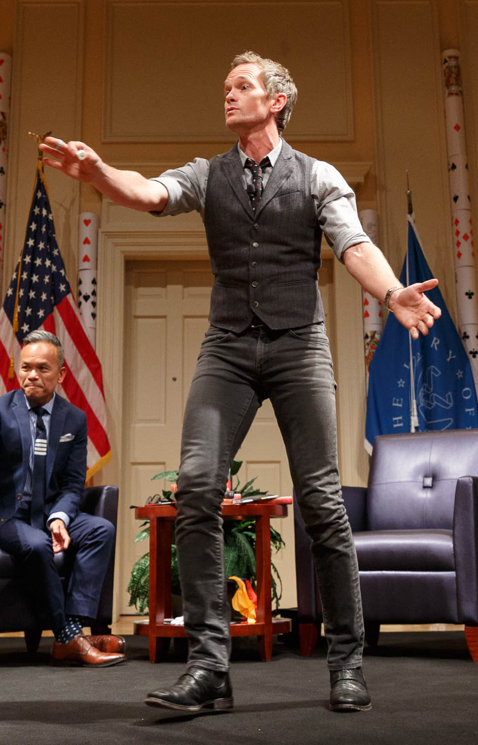 Neil Patrick Harris opens the "National Book Festival Presents" series during a talk with Roswell Encina, September 11, 2019. Photo by Shawn Miller/Library of Congress. Note: Privacy and publicity rights for individuals depicted may apply.